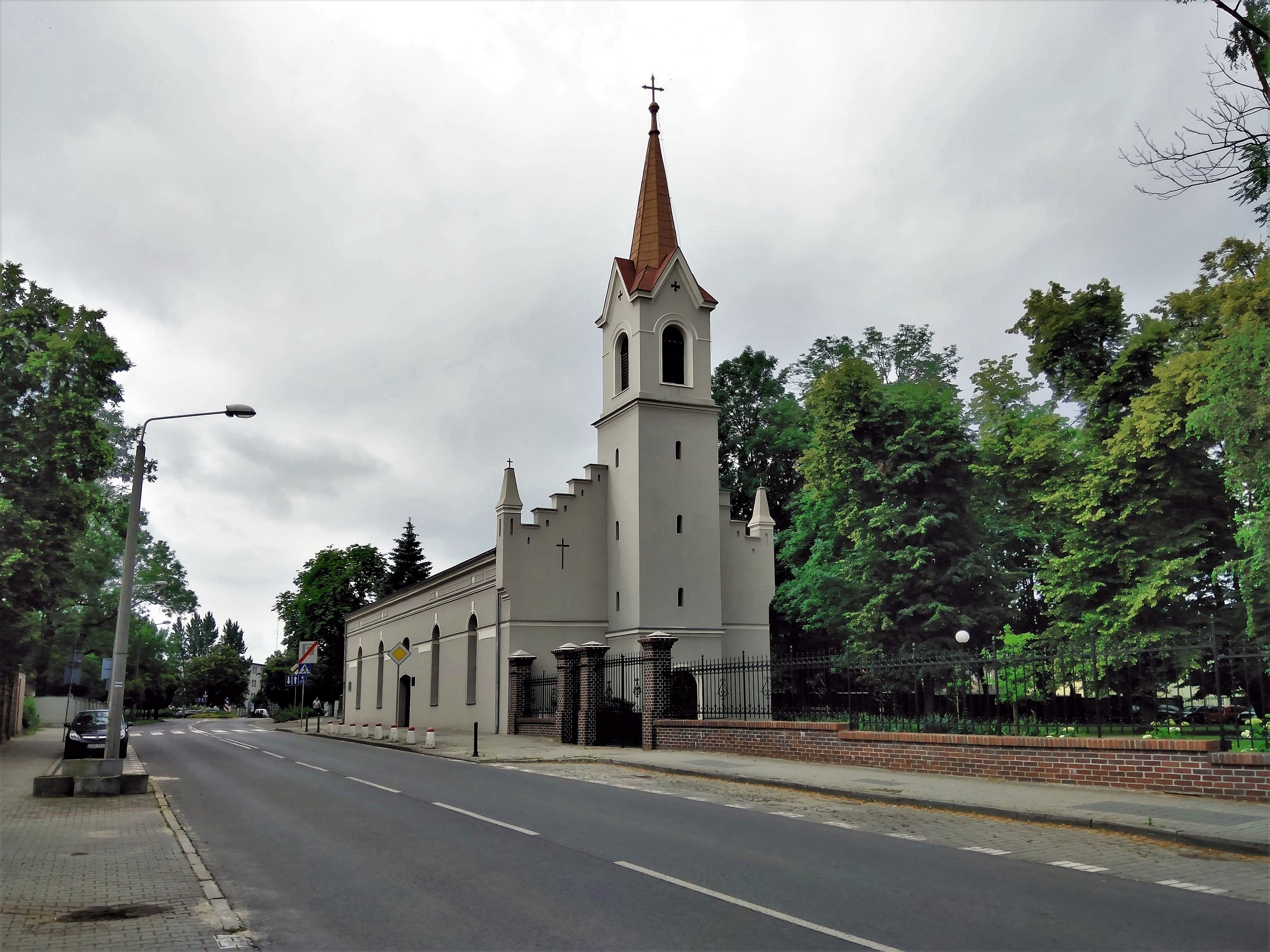 Lutheran church in Rybnik, Upper Silesia, Poland